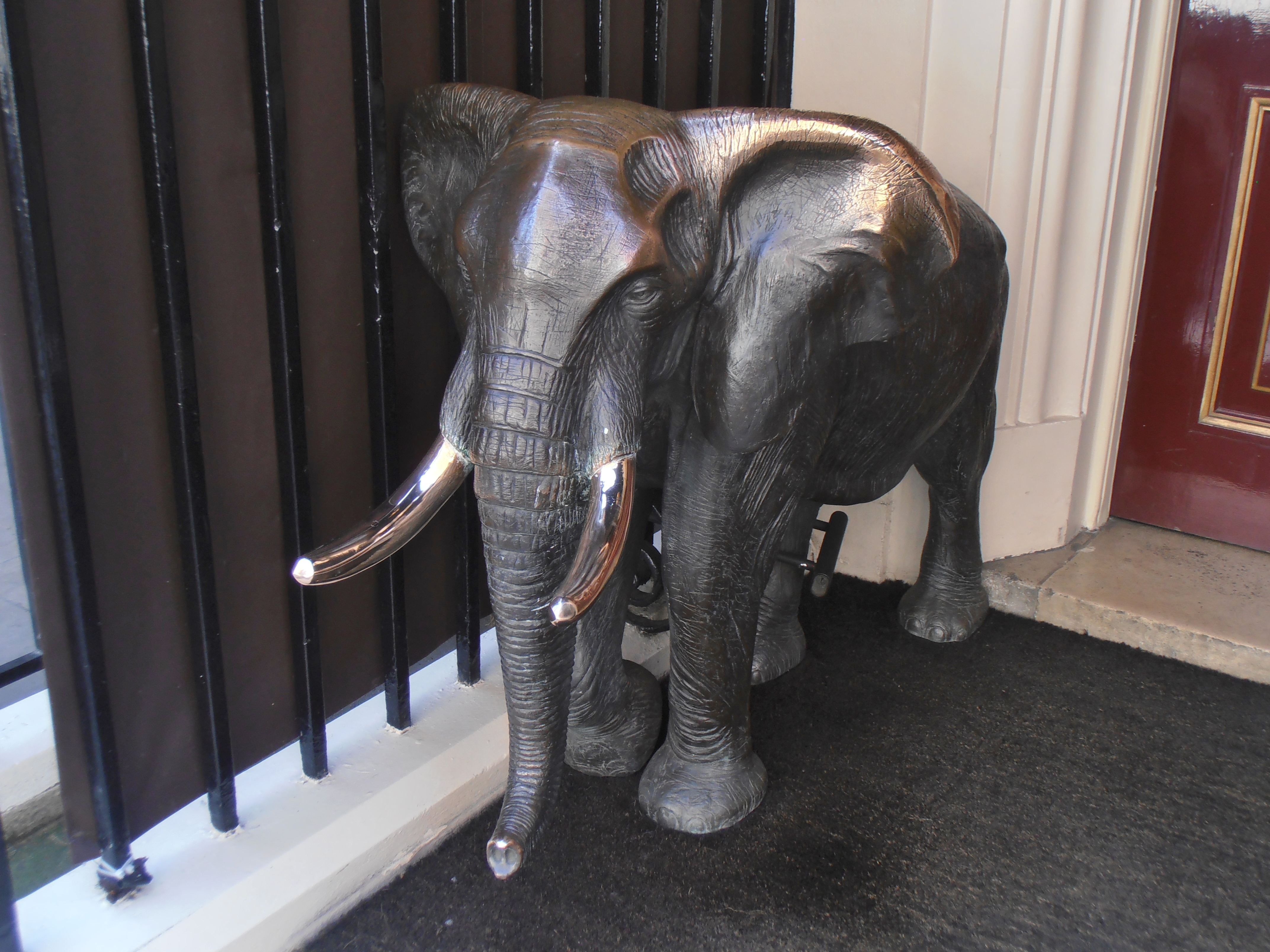 Elephant bronze outside Crown Aspinalls, Curzon Street, Mayfair, London W1. The making of this file was supported by Wikimedia UK.